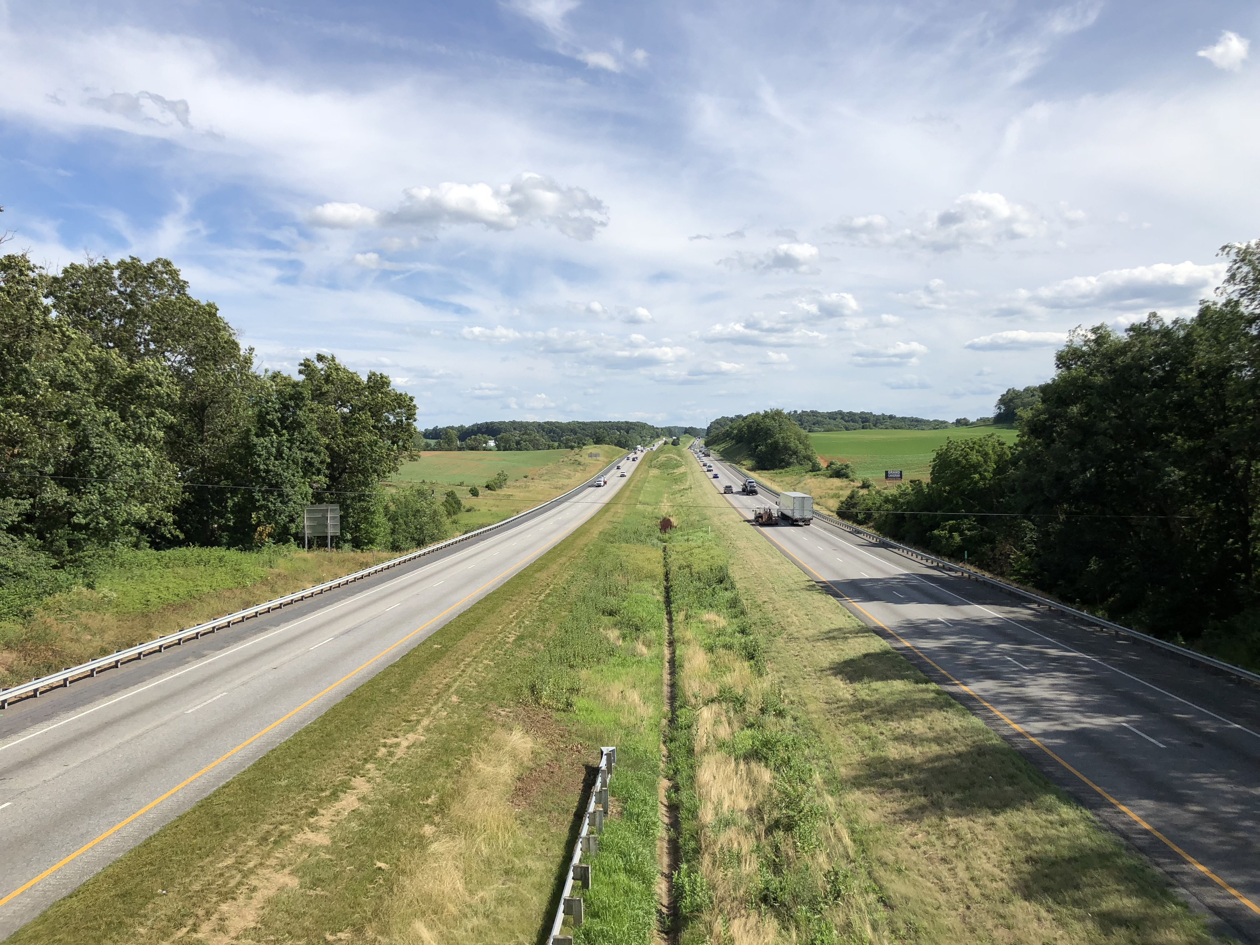 View south along Interstate 81 from the overpass for Virginia State Route 990 (Imboden Road) in North River, Rockingham County, Virginia